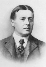 Public Domain This picture is public domain as the photograph's copyright has long since expired